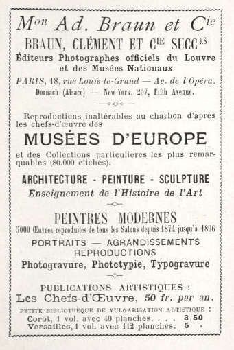 Advertising for Adolphe Braun Photographic Company based in Paris — from Jules Martin, Nos Peintres et nos sculpteurs, Paris, Flammarion, 1897, p. 385.